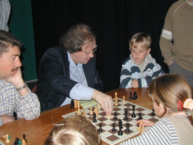 Chess player Rob Brunia.